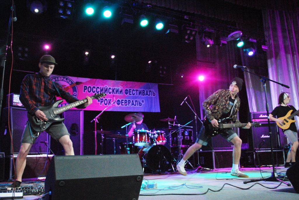 Музыканты X Всероссийского фестиваля «Рок-Февраль — 2014»